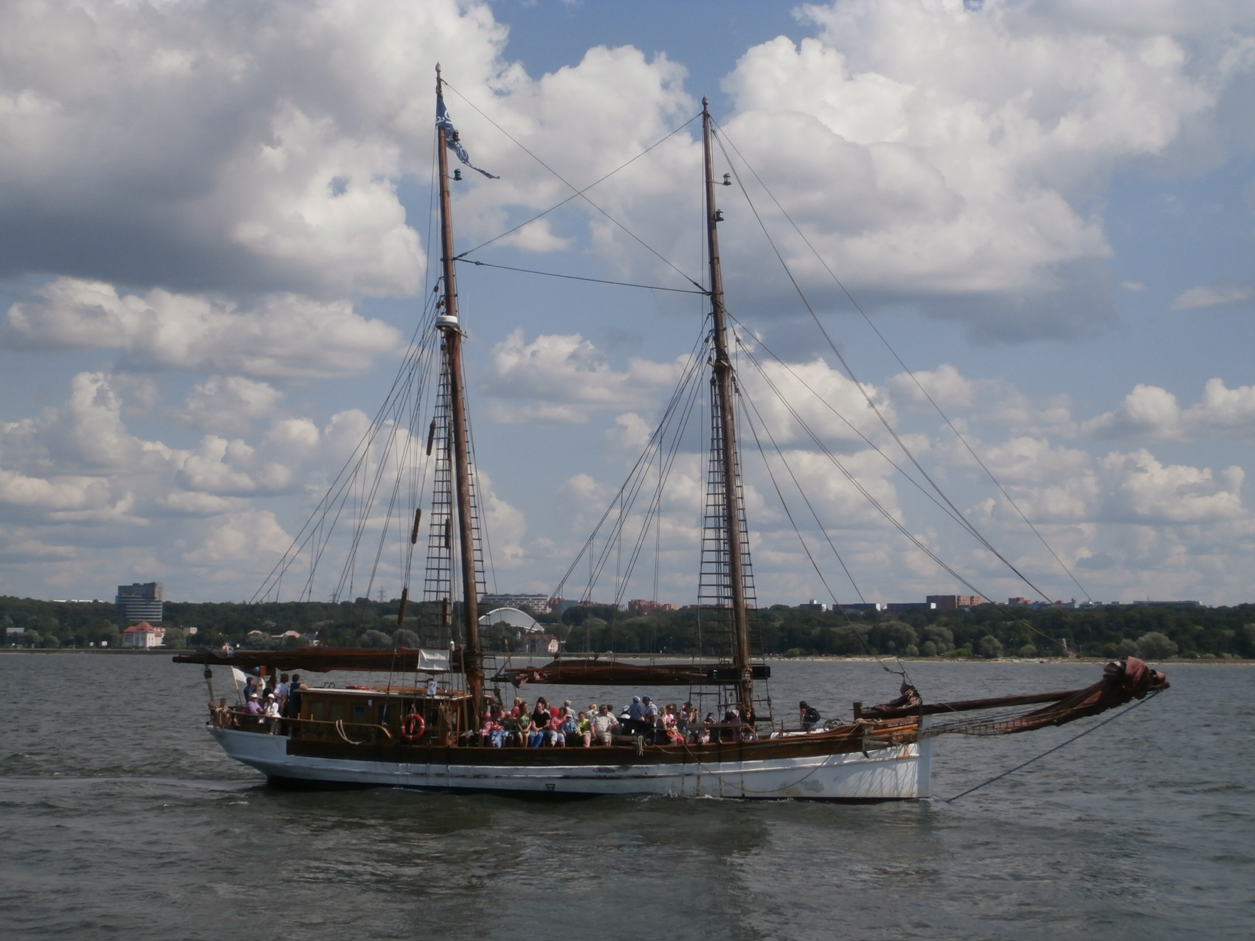 Blue Sirius arriving Tallinn 14 July 2013